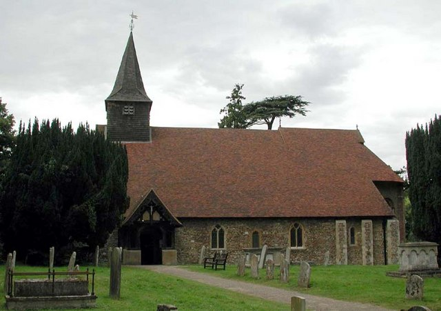 St Michael & All Angels Copford Essex